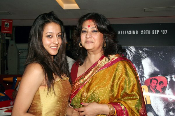 Premiere of Manorama Six Feet Under